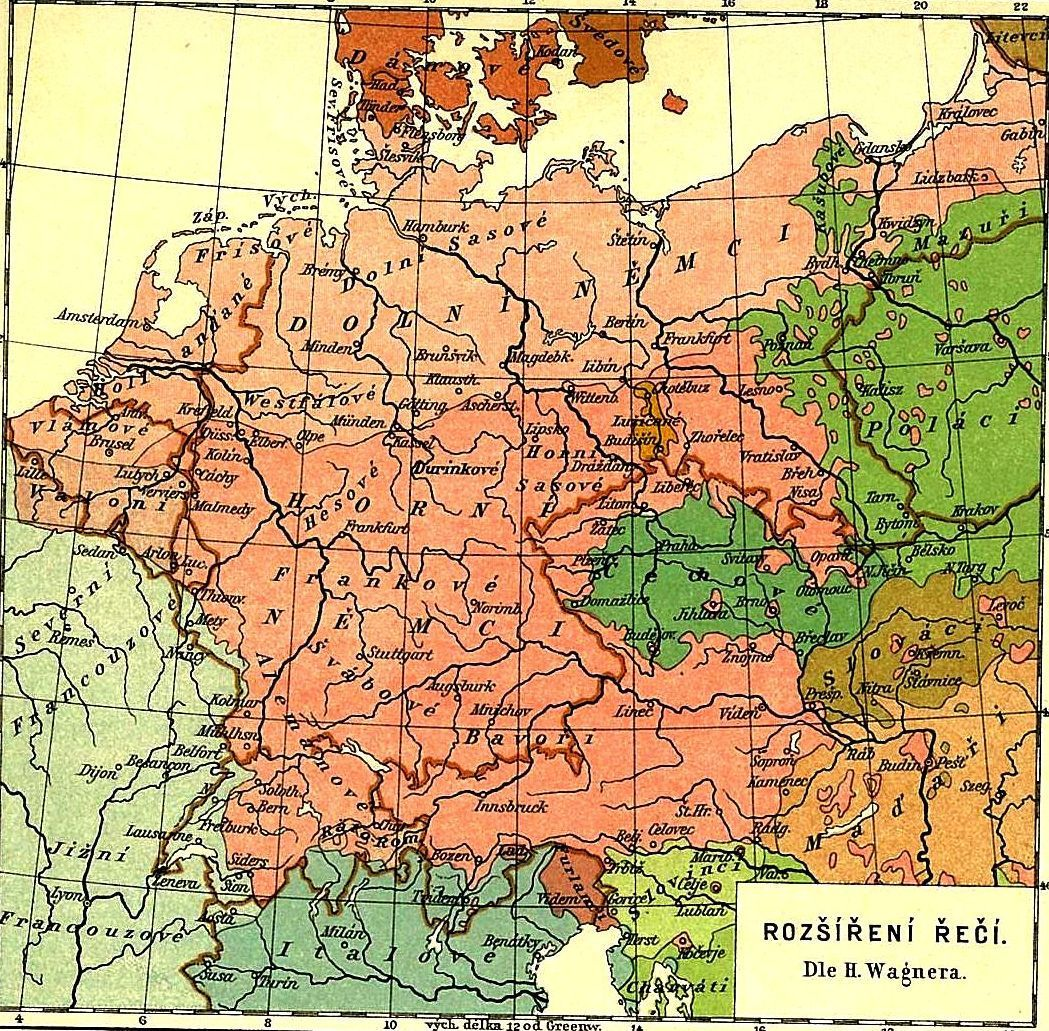 Map of languages and nations in Central Europe before 1910. Areas in pink are predominantly inhabitated by the Germans, areas in dark green predominantly by the Czechs, areas in light green predominantly by the Poles and areas in brown predominantly by the Slovaks. The descriptions are in Czech.